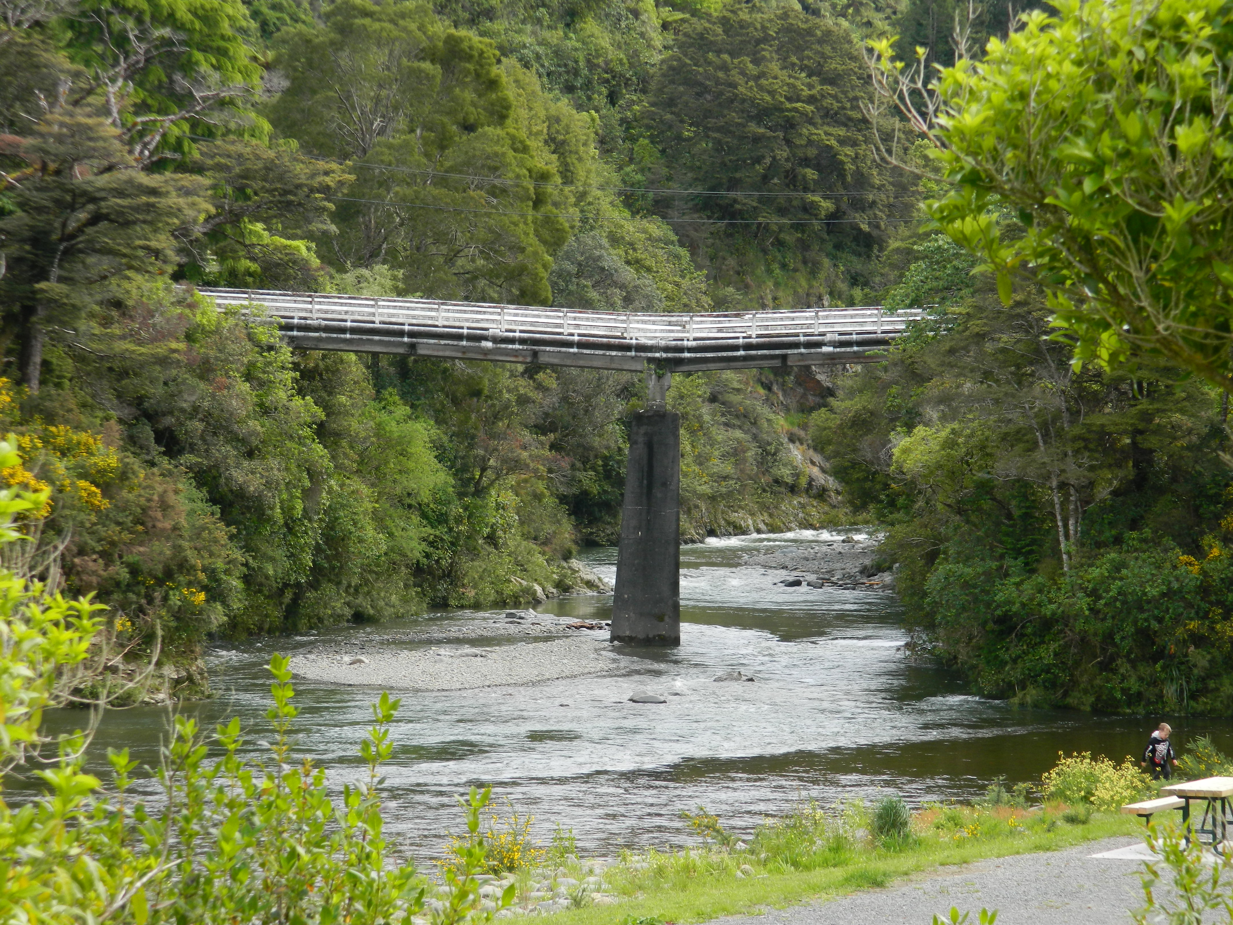 Andrews Bridge, Birchville, Upper Hutt, New Zealand as it stood on 31 October 2015, 2 days after the central pier failed. This bridge crosses the Akatarawa River just upstream of its confluence with the Hutt River and provides access from Akatarawa Road to Bridge Road. In the foreground the Hutt River flows from right to left. Taken from the path leading from the Tea Shelter in the picnic area on Akatarawa Road to the river bed.